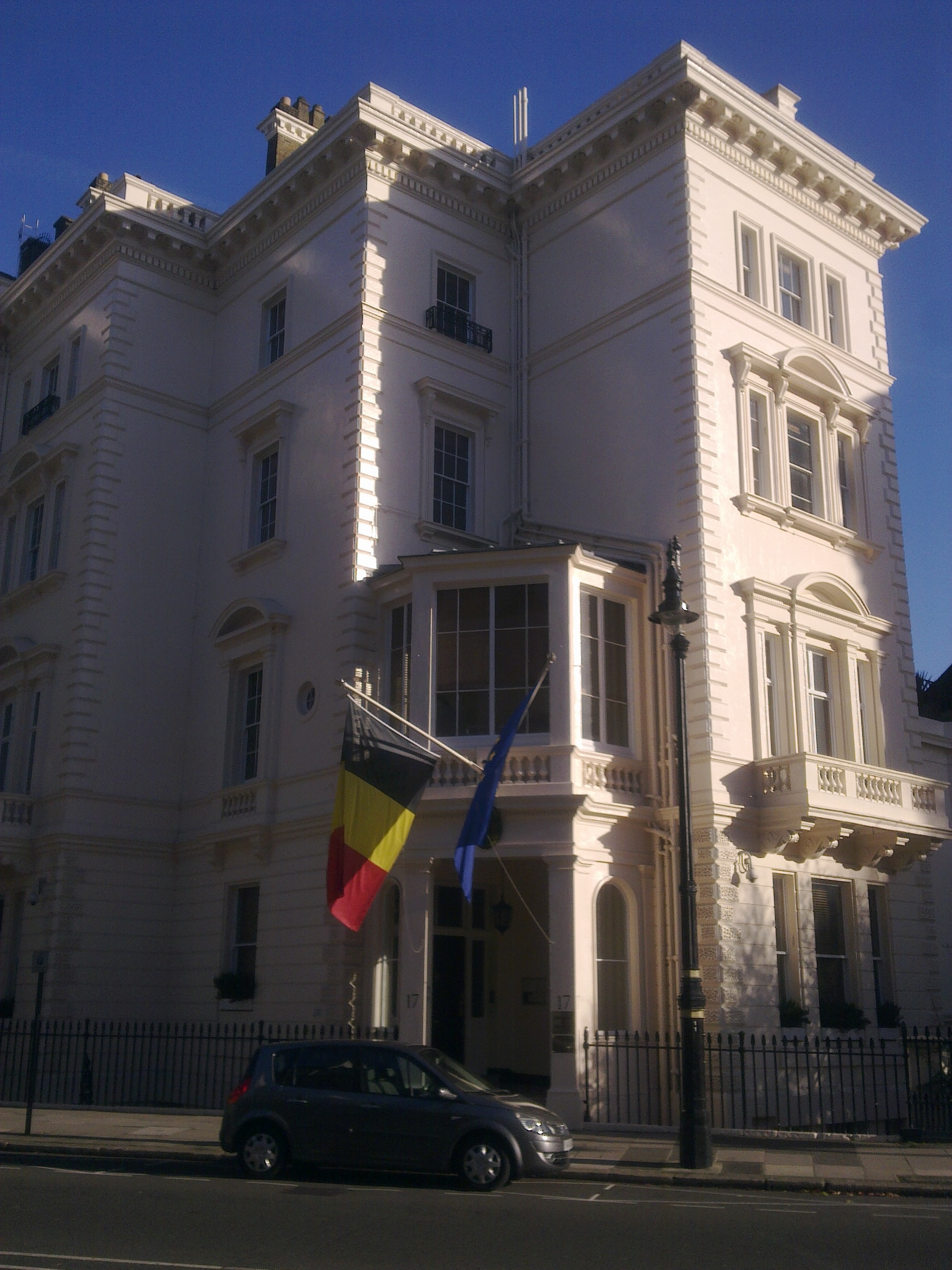 Embassy of Belgium in London 1